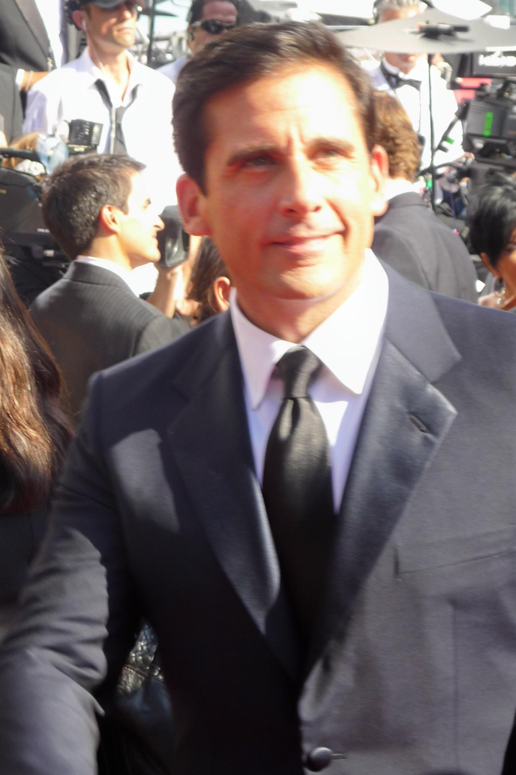 Actor and comedian Steve Carell at 2008 Emmy Awards.